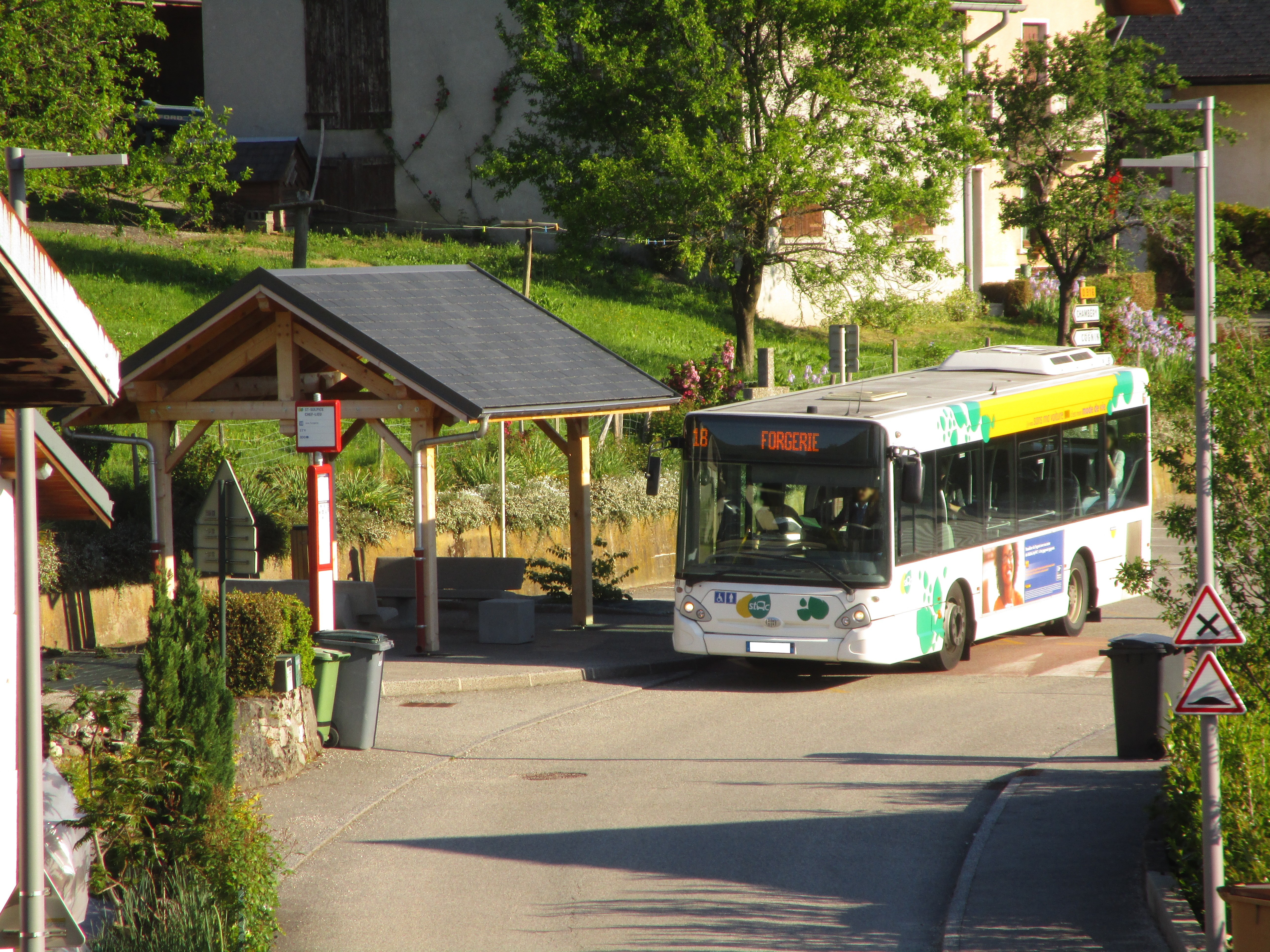 The Heuliez GX 127 n°7011 of Transavoie, on the line 18 of the Stac (Villard-Marin, La Motte-Servolex↔Forgerie, Cognin), at the call Saint-Sulpice Chef-Lieu in Saint-Sulpice on May 17, 2017.